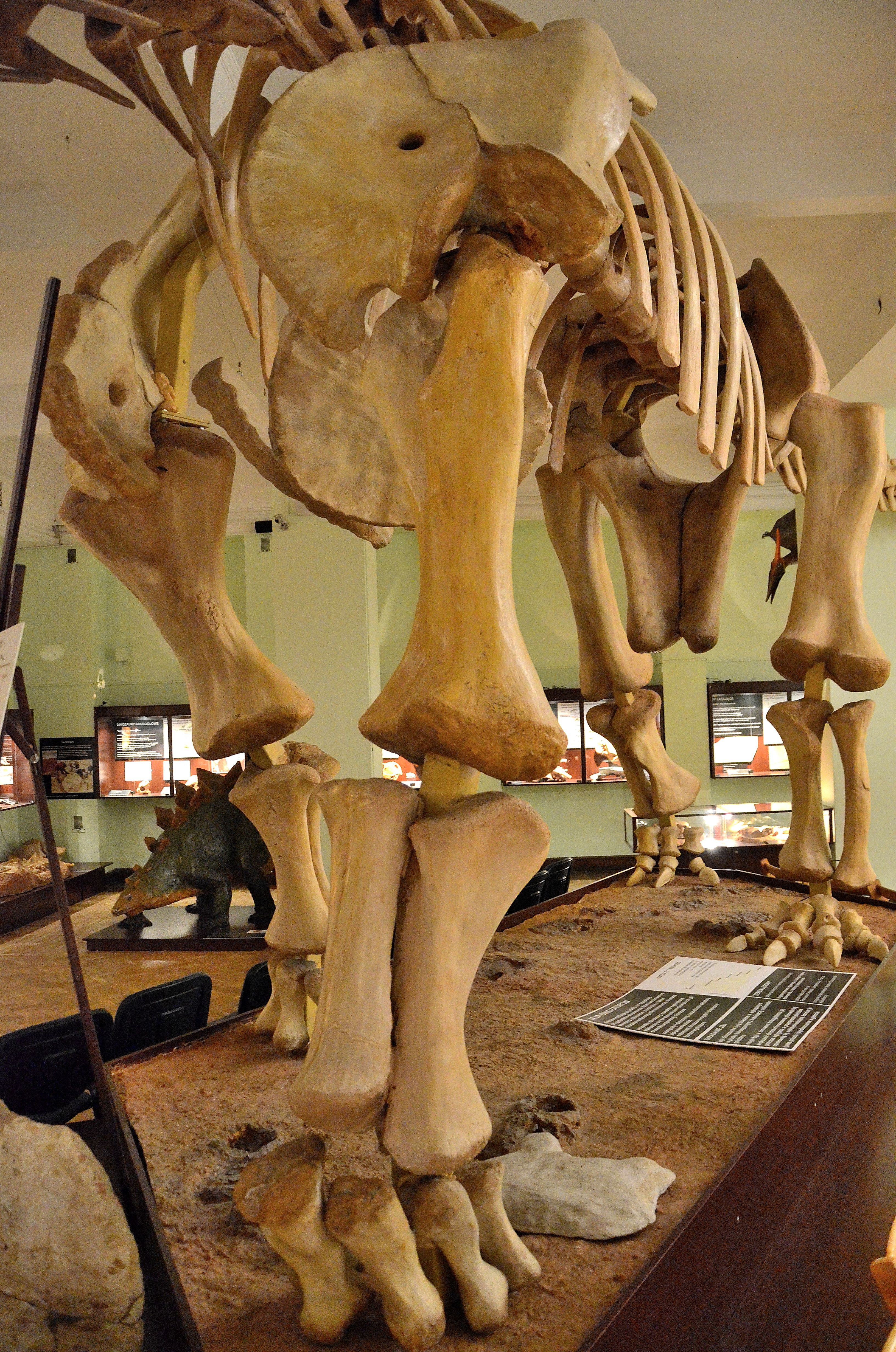 Opisthocoelicaudia skeleton. Museum of Evolution in Warsaw